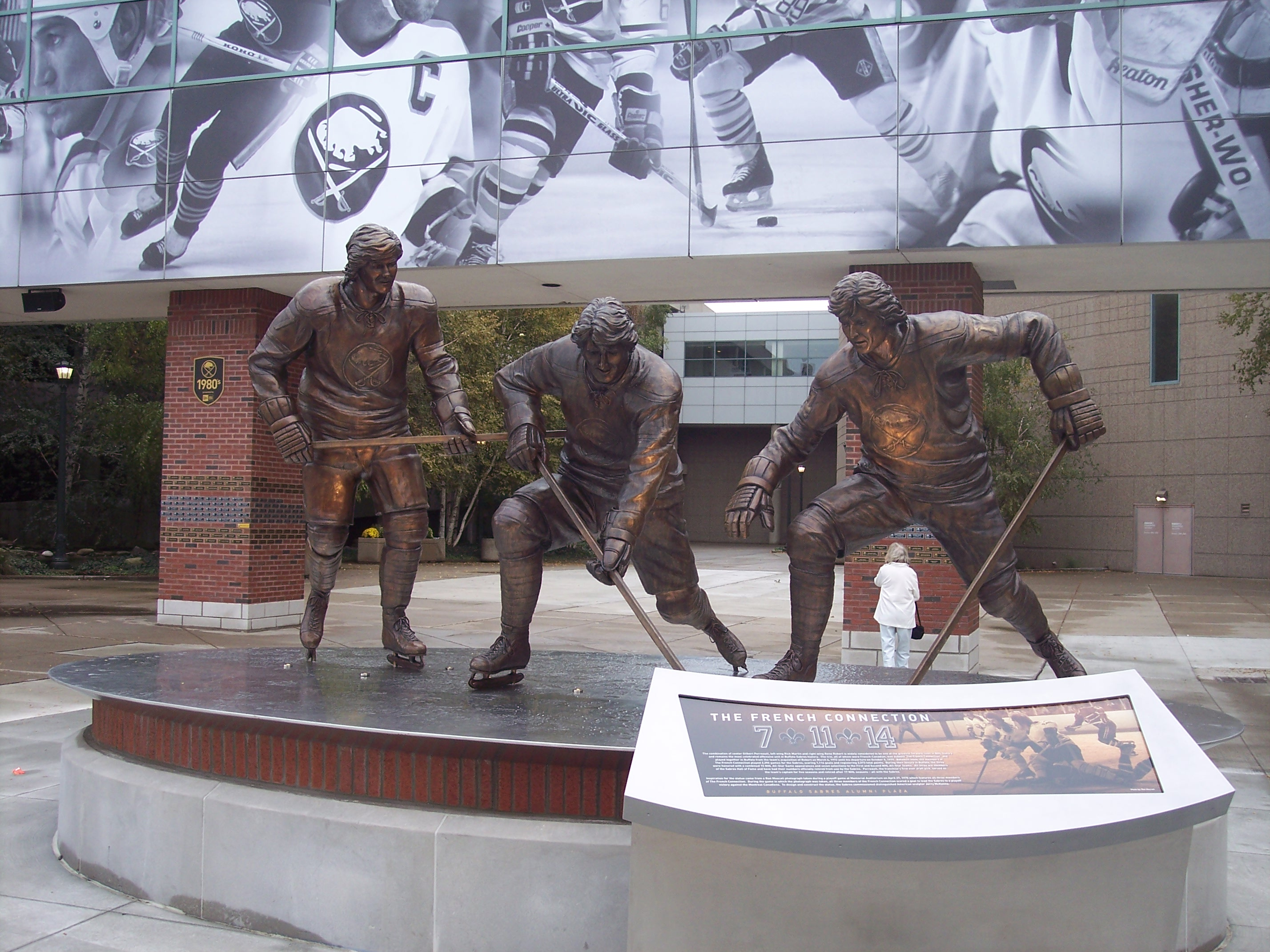 Statue of Buffalo Sabres greats Gilbert Perreault, Rene Robert, and Rick Martin. First Niagara Center, Buffalo New York The bronze statue, the work of sculptor Jerry McKenna